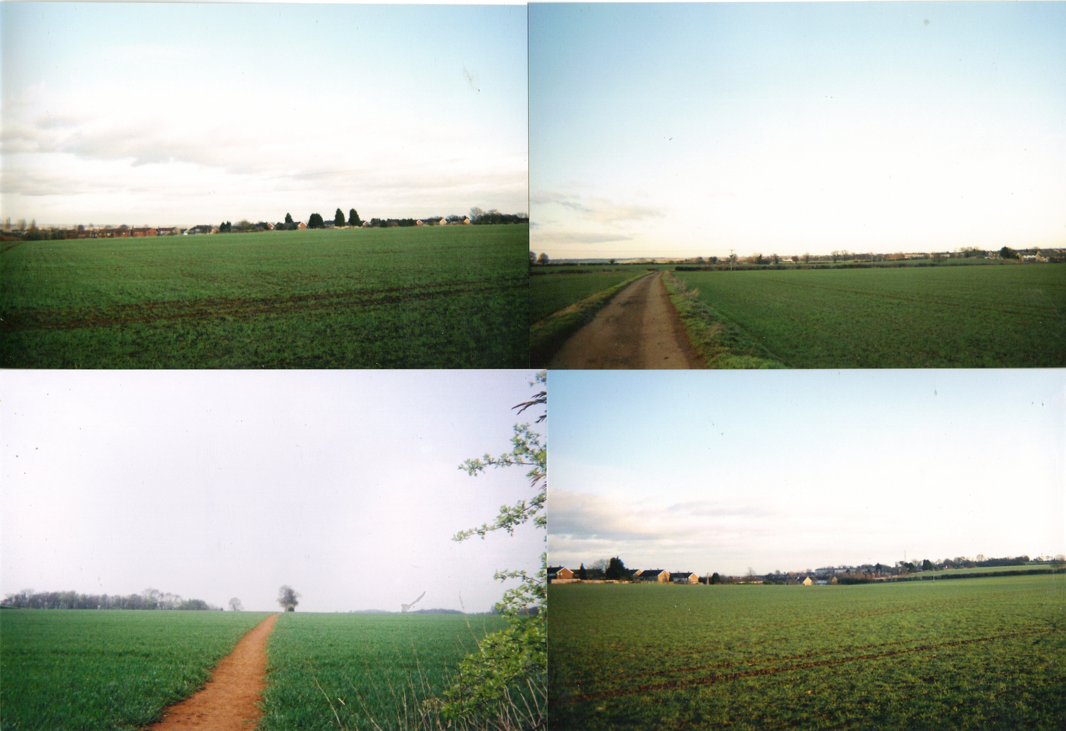 The fields between Dover Avenue in Banbury, Wythicombe Farm and Drayton in 2010. The was a plan to build a housing estate on them, but it has now been dropped.